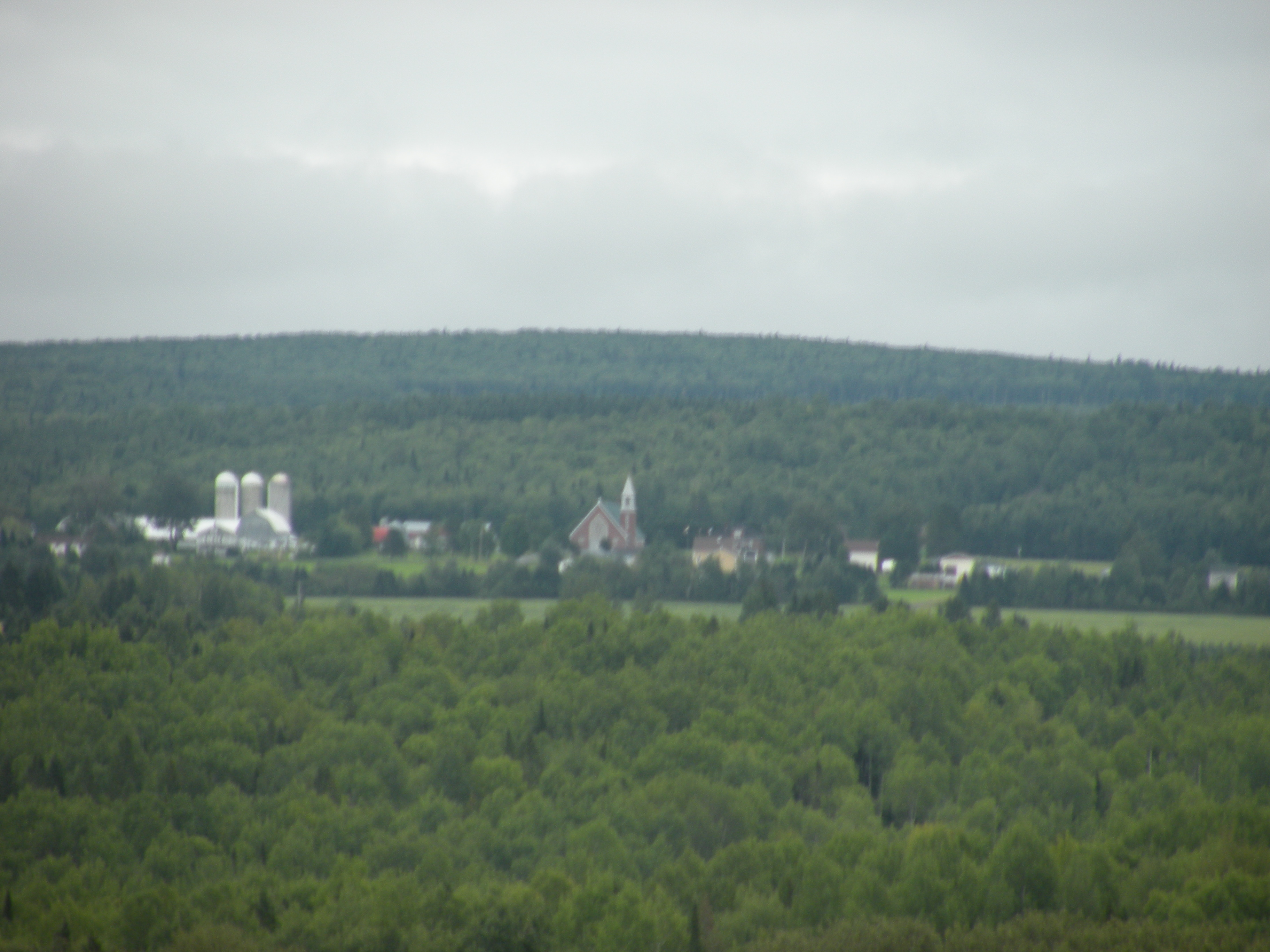 Saint-Martin-de-Restigouche, New Brunswick.